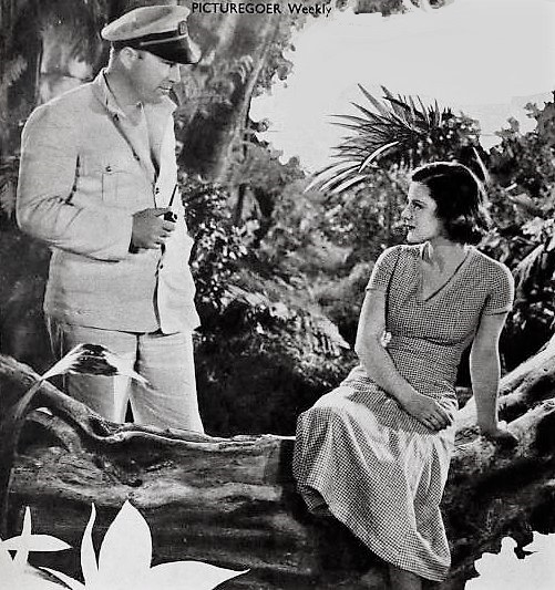 Still of Robert Armstrong and Helen Mack from Son of Kong (1933).